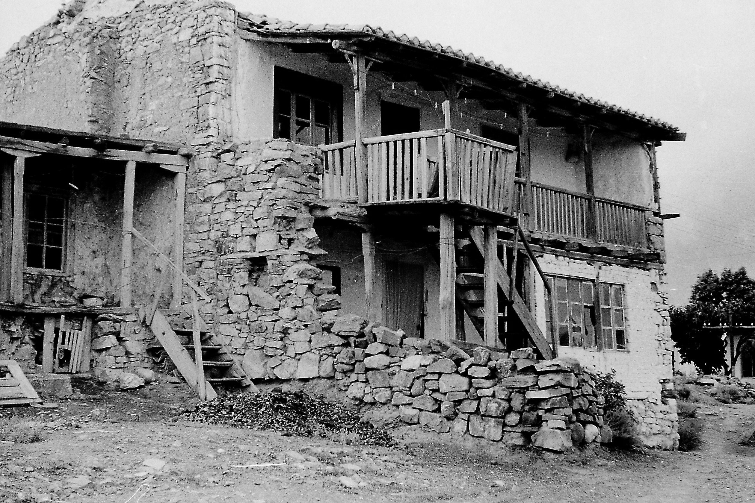 Crimeans tatar saklya